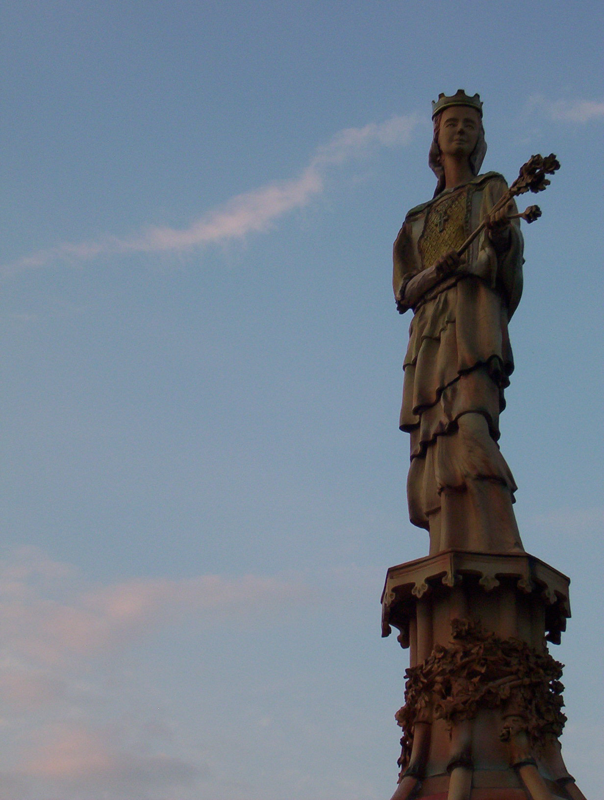 Statue of Elisabeth of Hungary detail of Saint Elisabeth of Hungary memorial by Zsuzsa Pannonhalmi (1997). A glazed ceramic statue and relief composition on an octagonal base with eight relief (King Andrew II of Hungary and Gertrude of Merania; she lived in Wartburg from 1211; marriage: Louis IV, Landgrave of Thuringia; Miracle of the Roses; Louis IV's farewell to Elizabeth, hospital founded in Marburg, ....)..- Szent Erzsébet square, 20th district, Budapest.